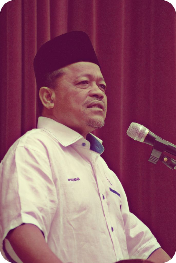 Datuk Seri Shahidan Kassim is the former Menteri Besar of Perlis.